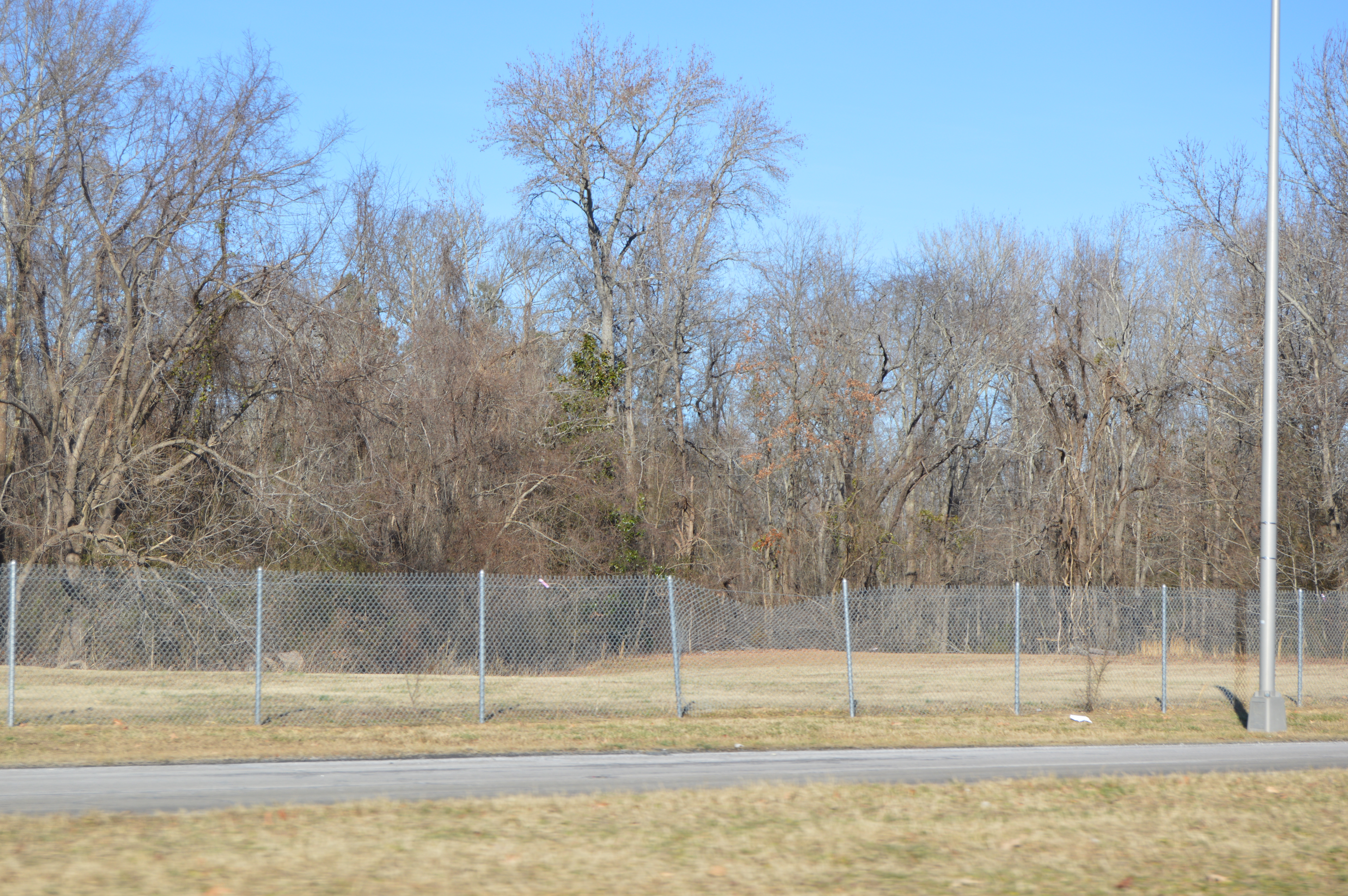 A fenced greensward on U.S. Route 17 just west of the Interstate 664 interchange in Suffolk, Virginia, United States. In the back, near the trees, is part of the Knotts Creek-Belleville Archeological Site, a significant archaeological site that is listed on the National Register of Historic Places.